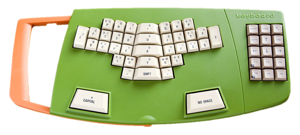 This is not a Velotype but a Veyboard as produced in 2006. From Public domain according to Dutch wikipedia.